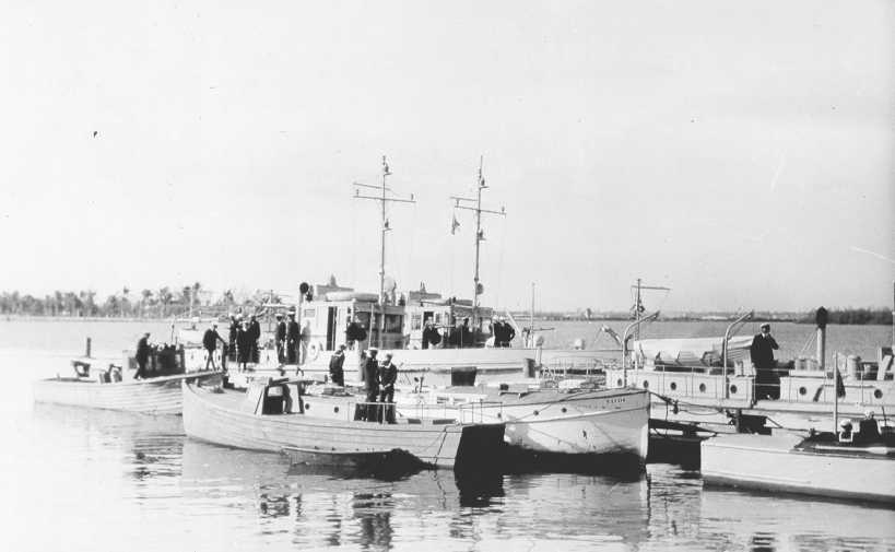 Fort Lauderdale Alcohol Apprehension. Three USCG "Six-Bitters" in the background.